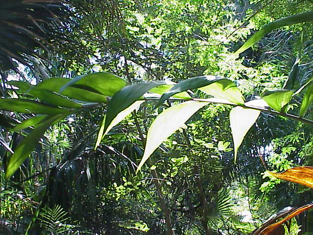 Species: Chamaedorea oblongata Family: Palmae Image No. 1